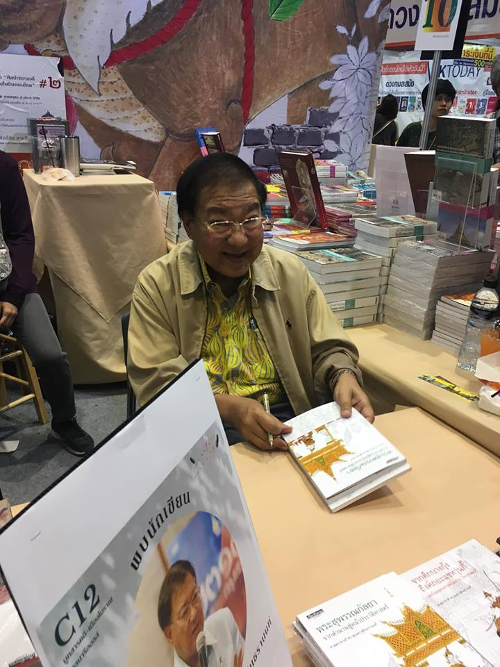 Sunait Chutintaranond in 47th National Book Fair & 17 th Bangkok International Book Fair 2019, Queen Sirikit National Convention Center, Bangkok